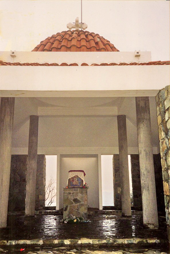 Kykkos Monastery - Troödos Mountains, Cyprus.